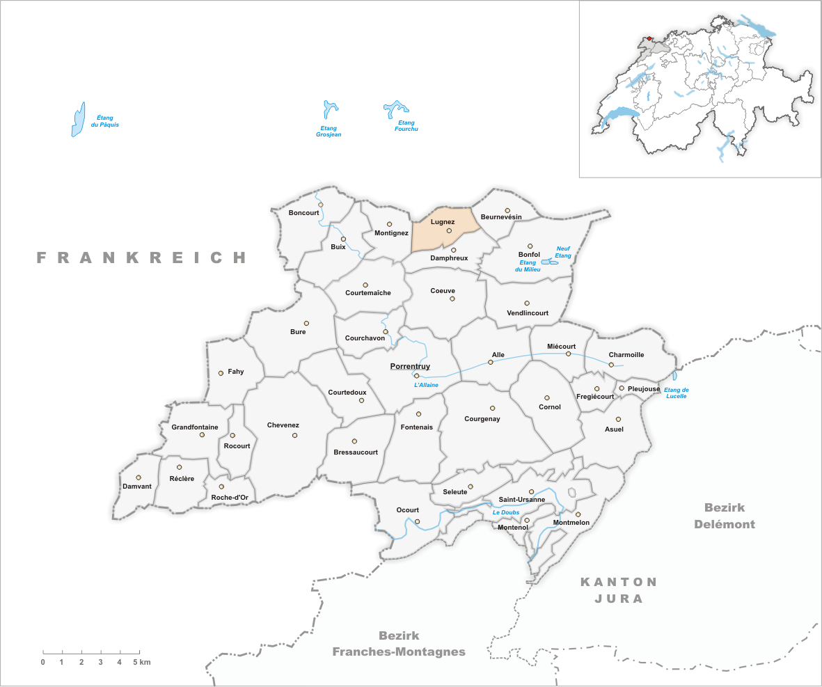 Municipality Lugnez